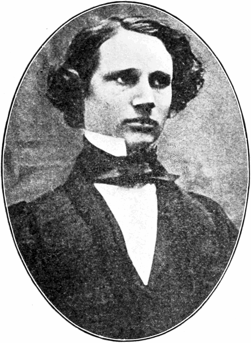 William Thomson, Lord Kelvin at the age of twenty two